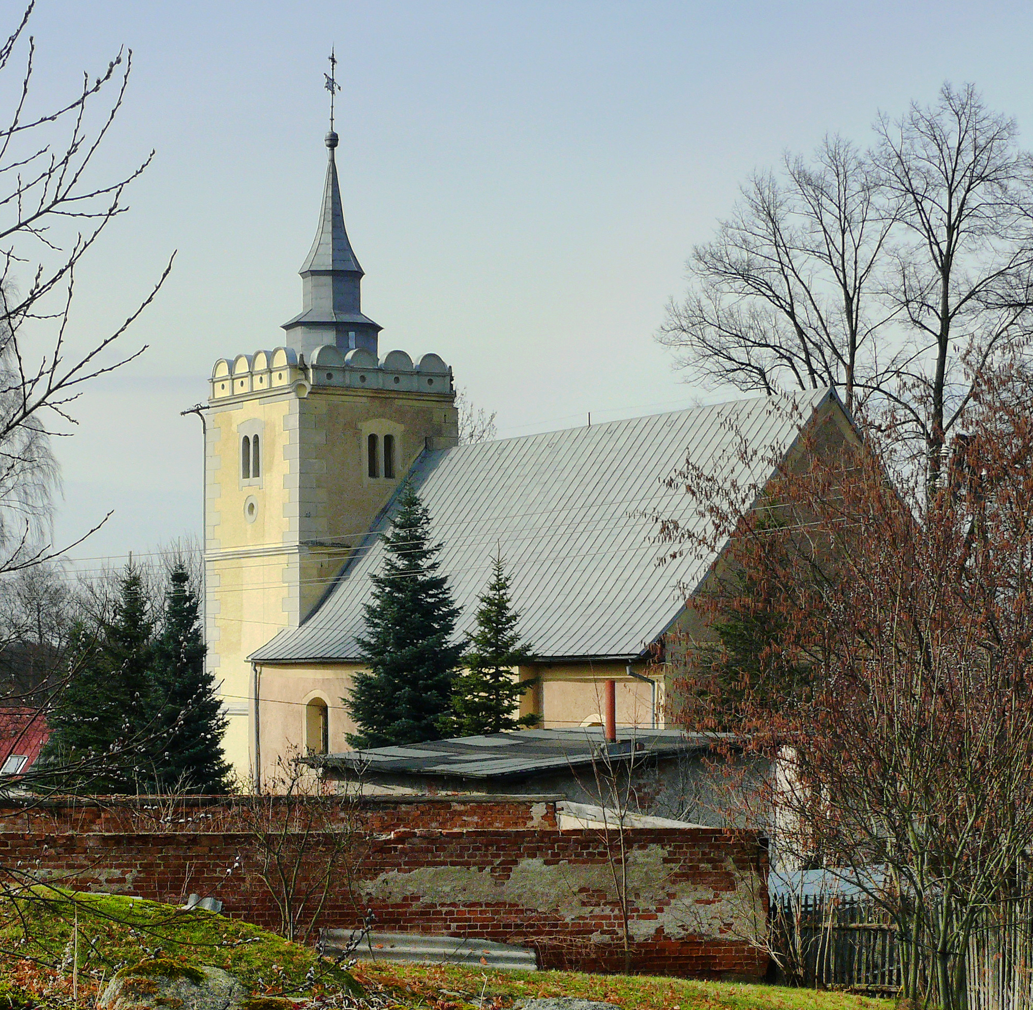 Church of St. Hedwig in Karpniki